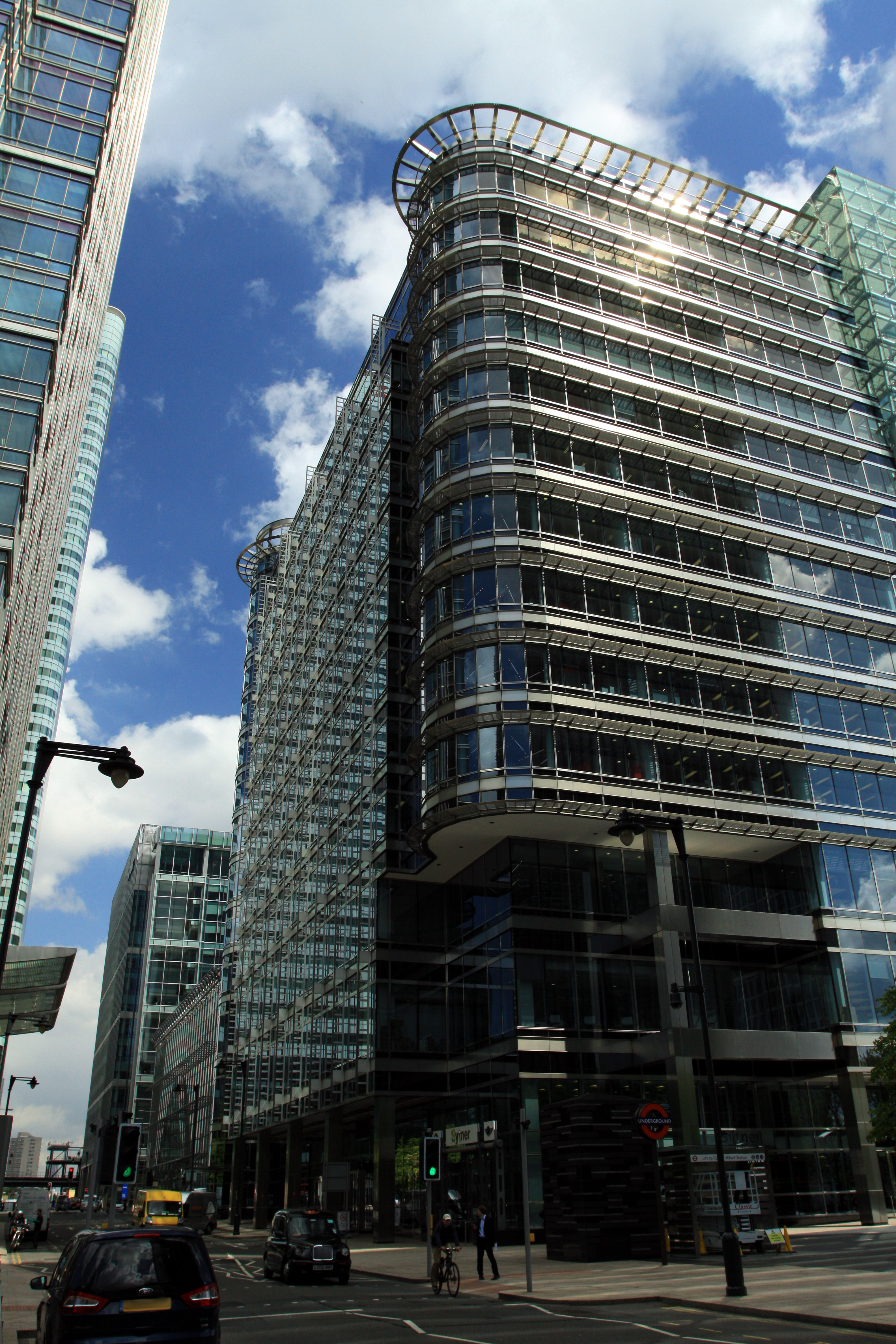 20 Canada Square from Upper Bank Street in London Borough of Tower Hamlets, London, England, Great Britain The making of this file was supported by Wikimedia UK.